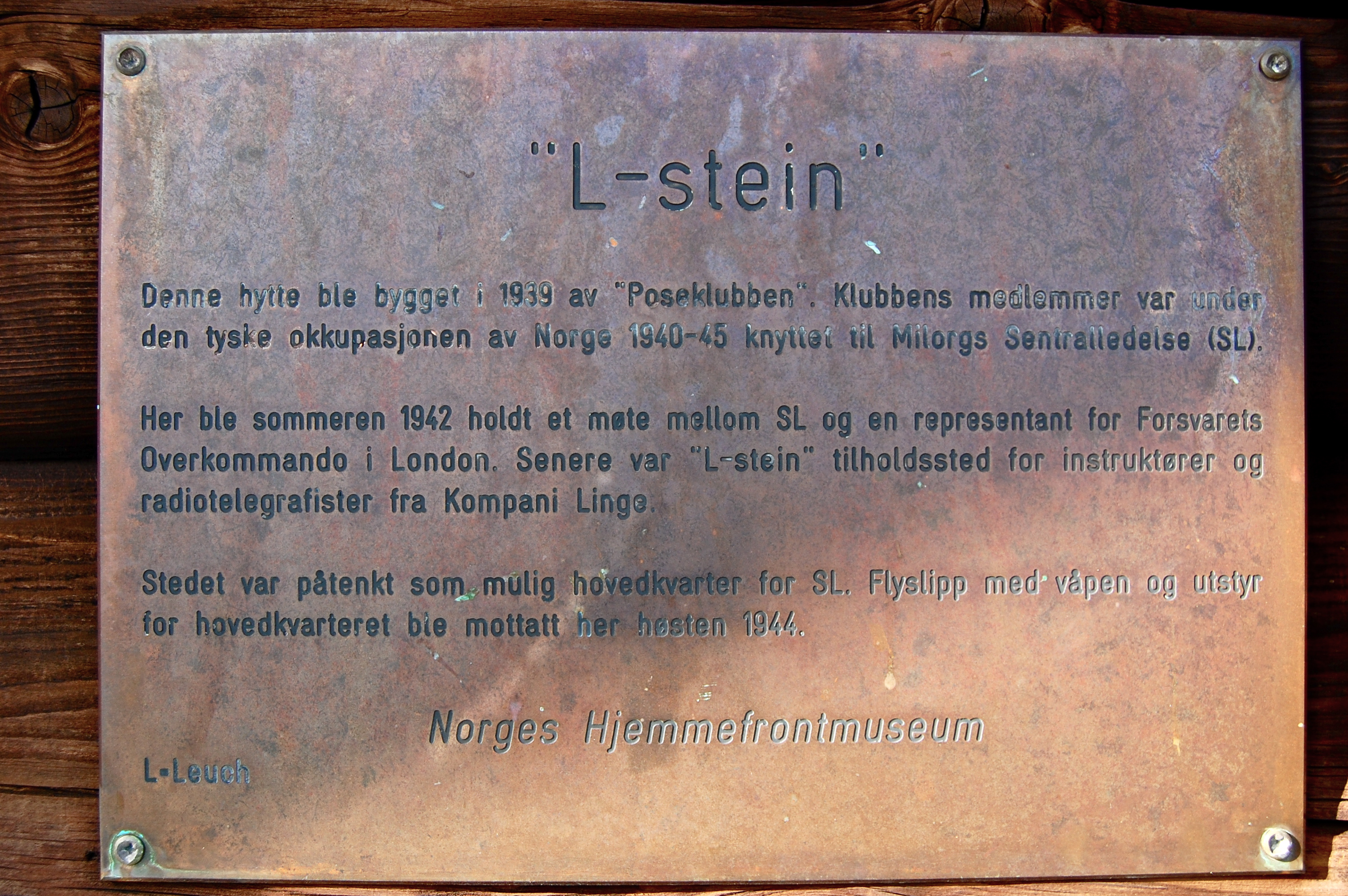 Information about a secret cottage used by the Norwegian forces during Worldwar II